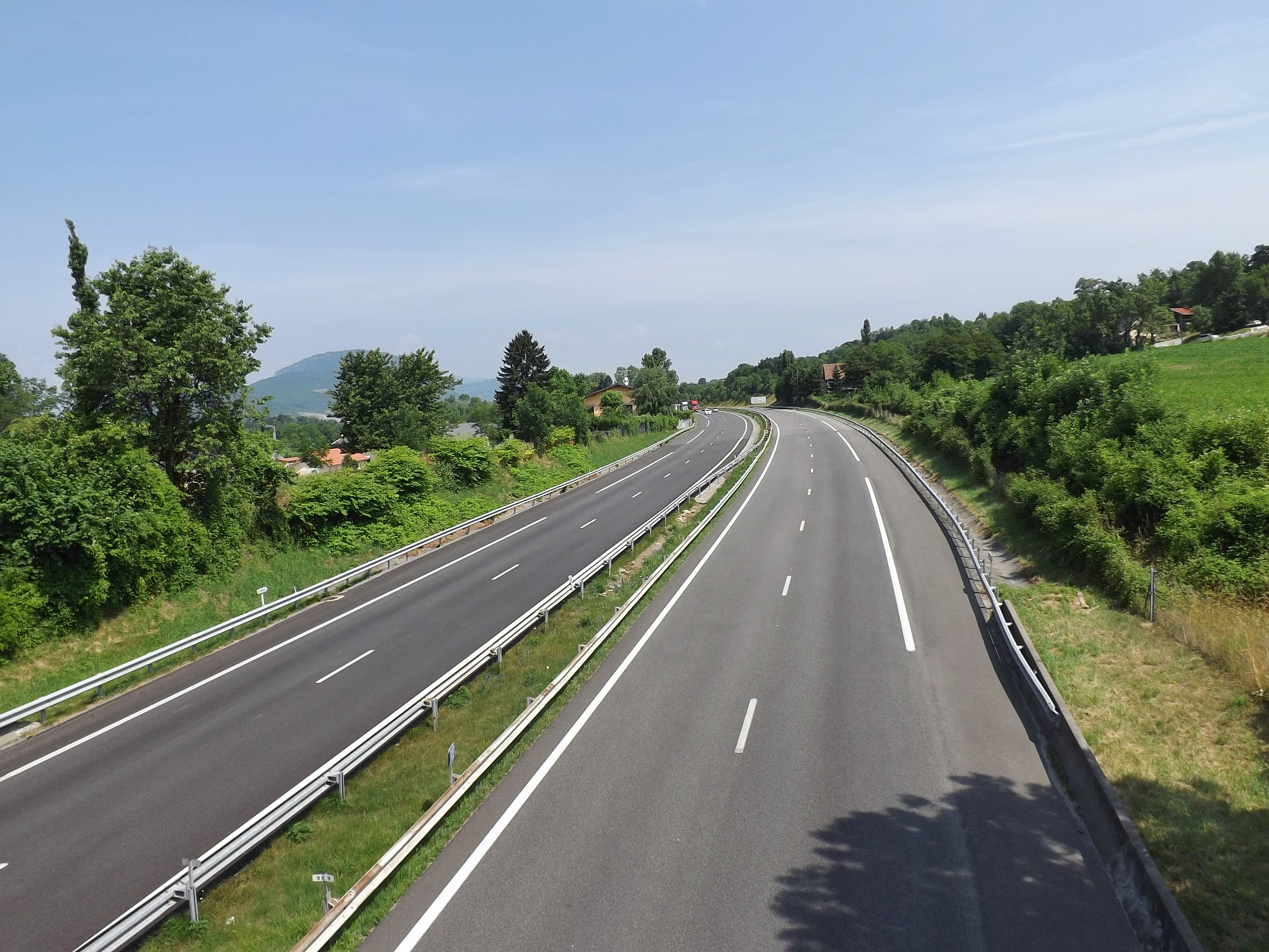 The A41 French motorway, here seen from the bridge between Aix-les-Bains and Mouxy, in Savoie.